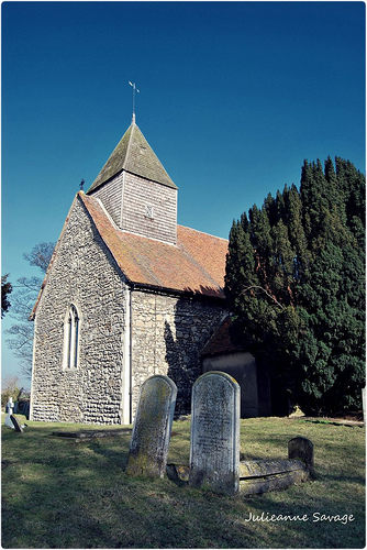 West end of All Saints' parish church, Sutton, Essex, seen from the southwest